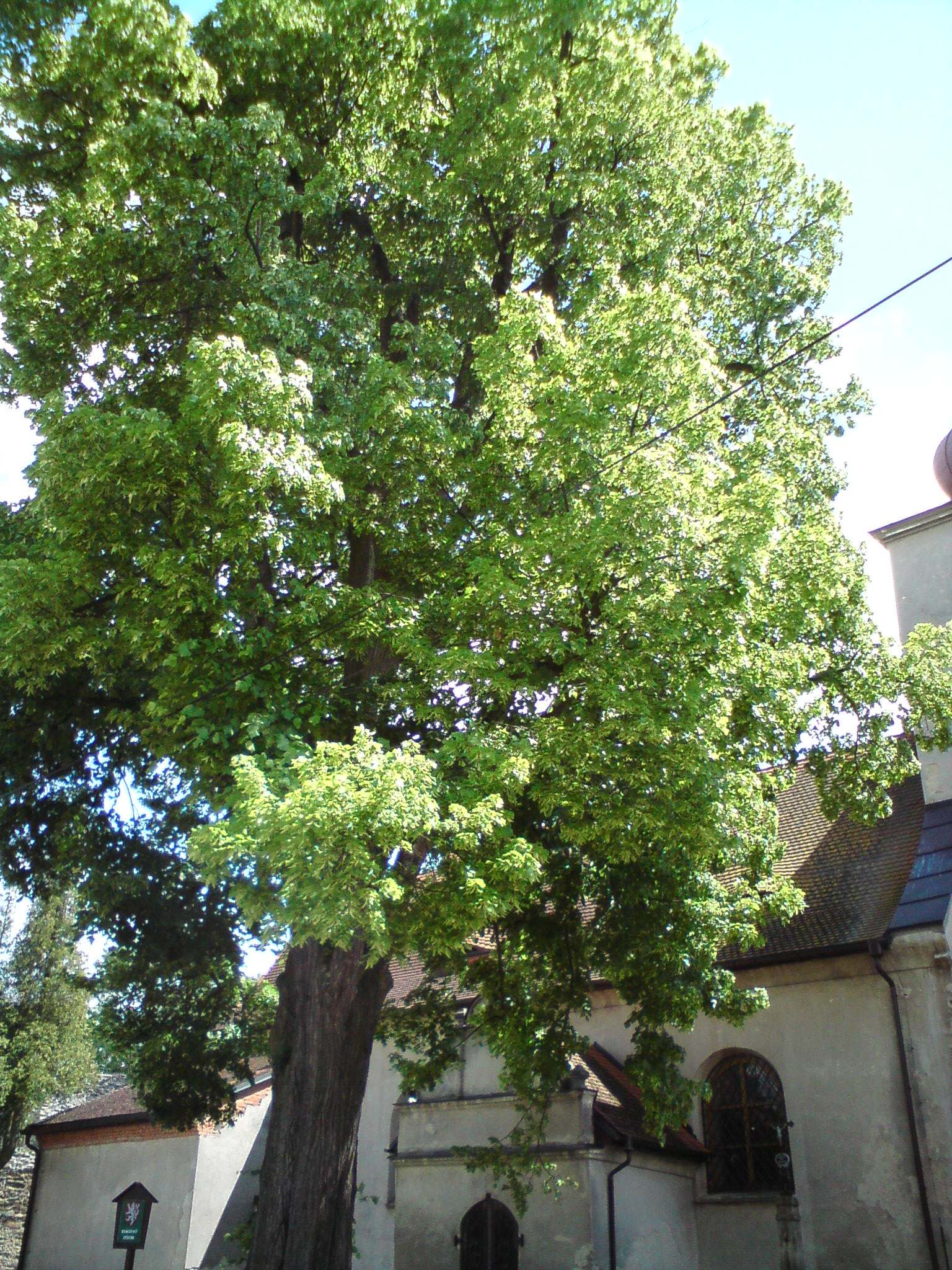 Lime Tree in Poleň, Czech Republic